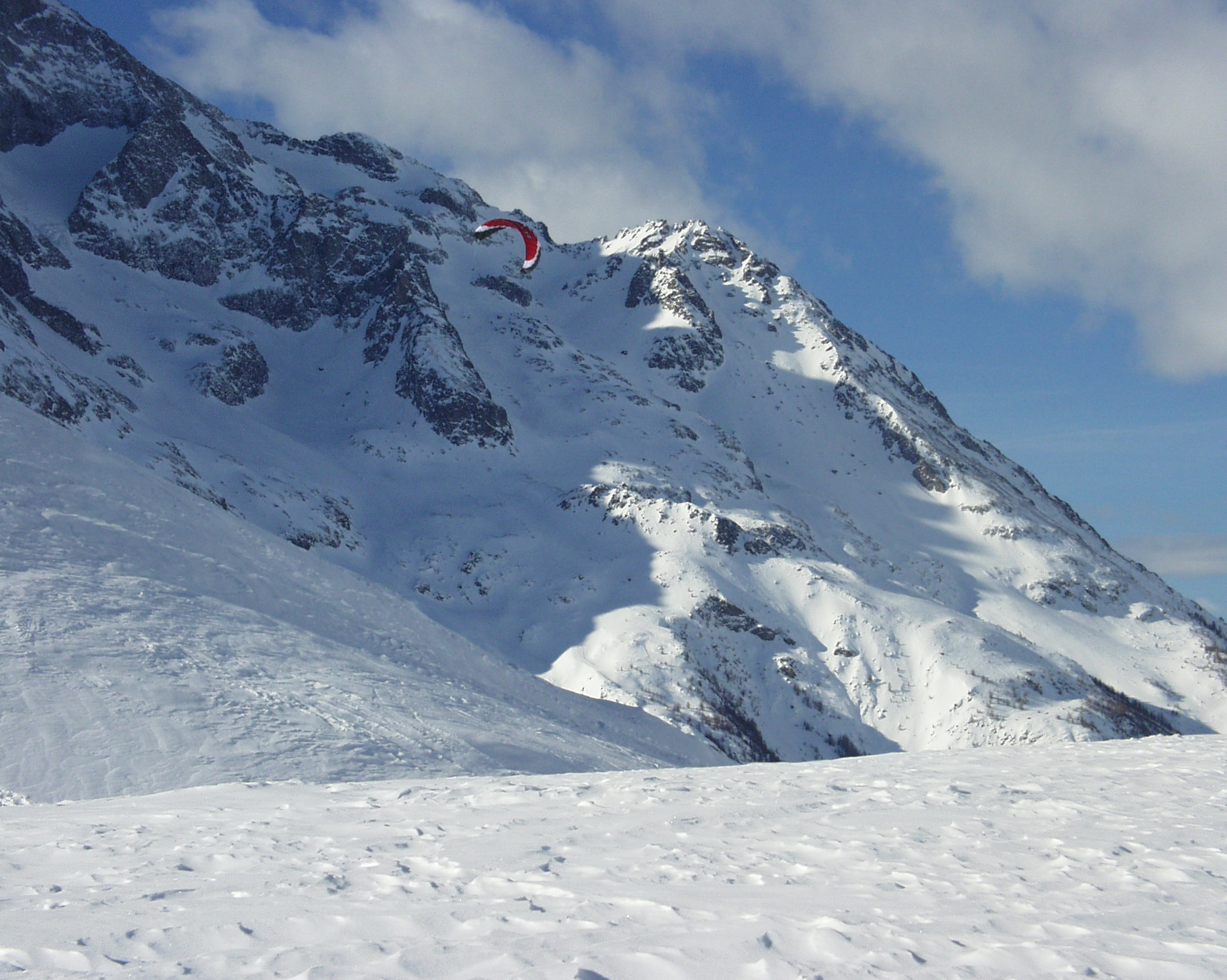 Mountains under snow and kitesurf around the Col du Lautaret, France.